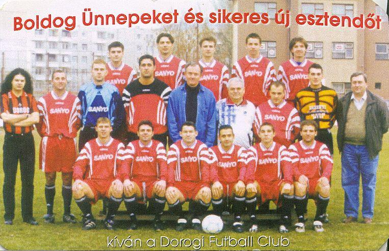 Cover of calendar of 2001 year